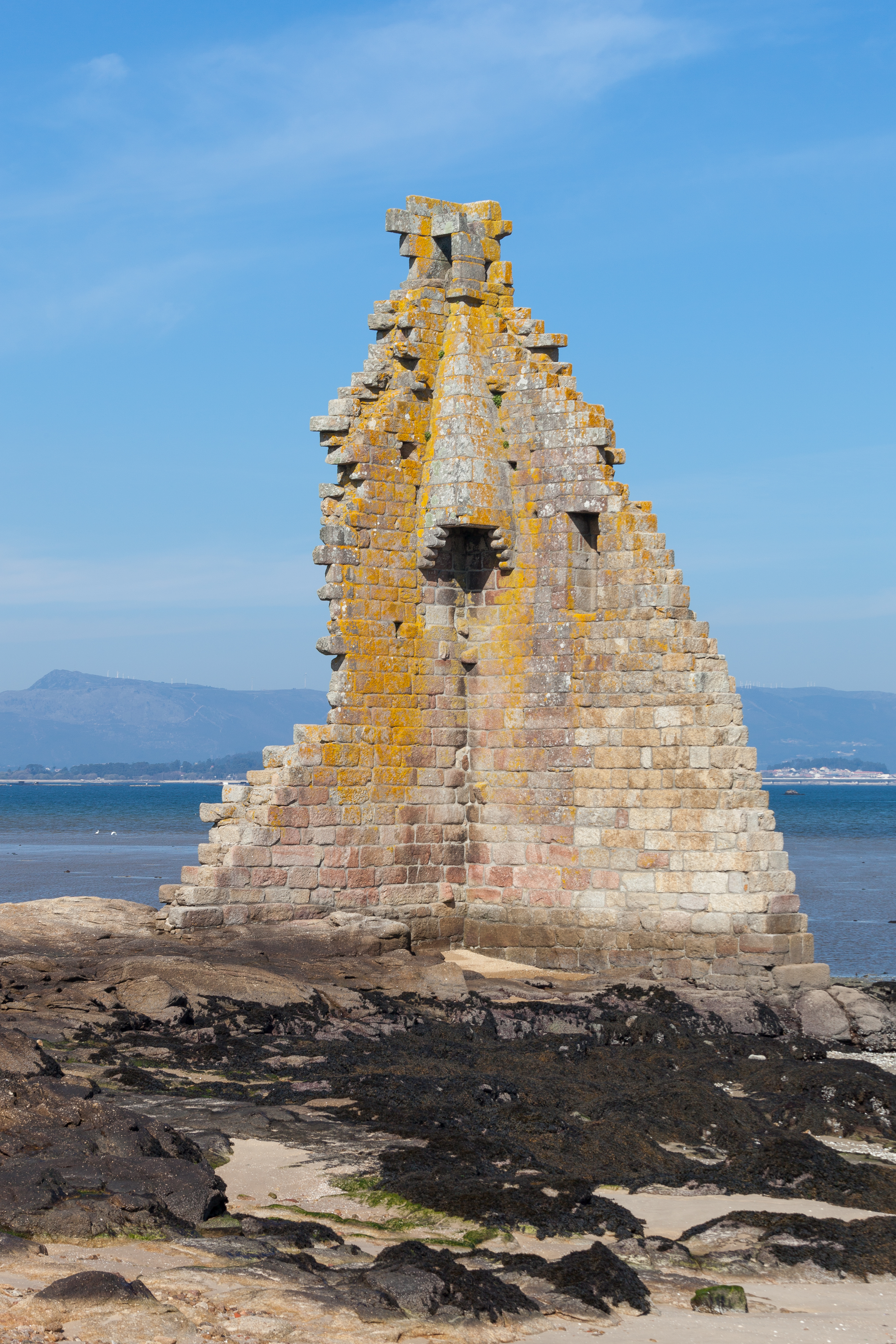 San Sadurniño tower, Cambados, Galicia (Spain)